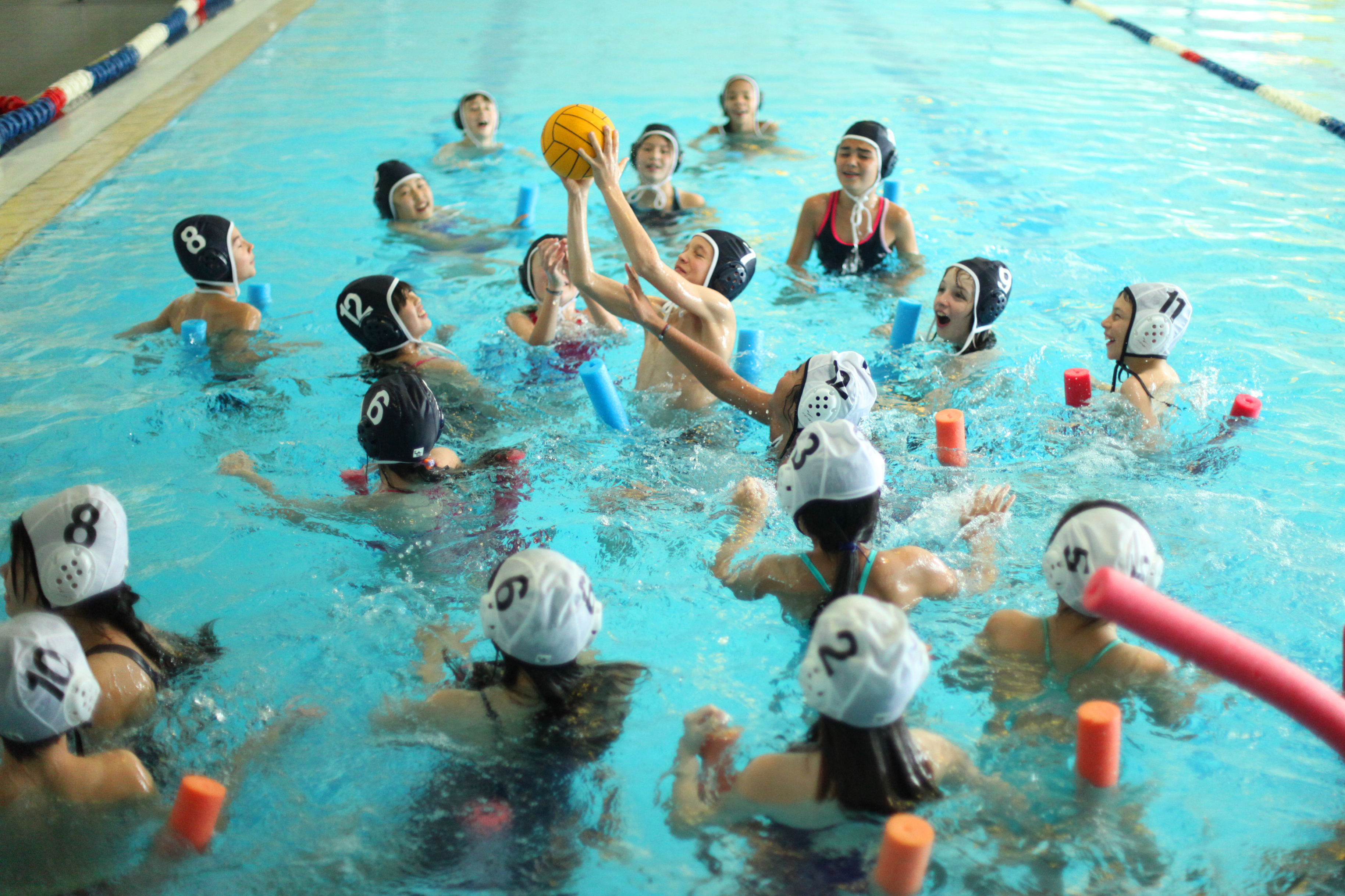 Shanghai French School swimming pool